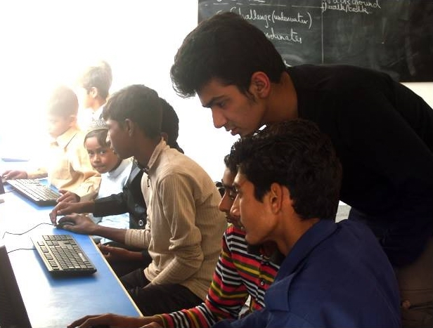 stem5 - Al Maktab